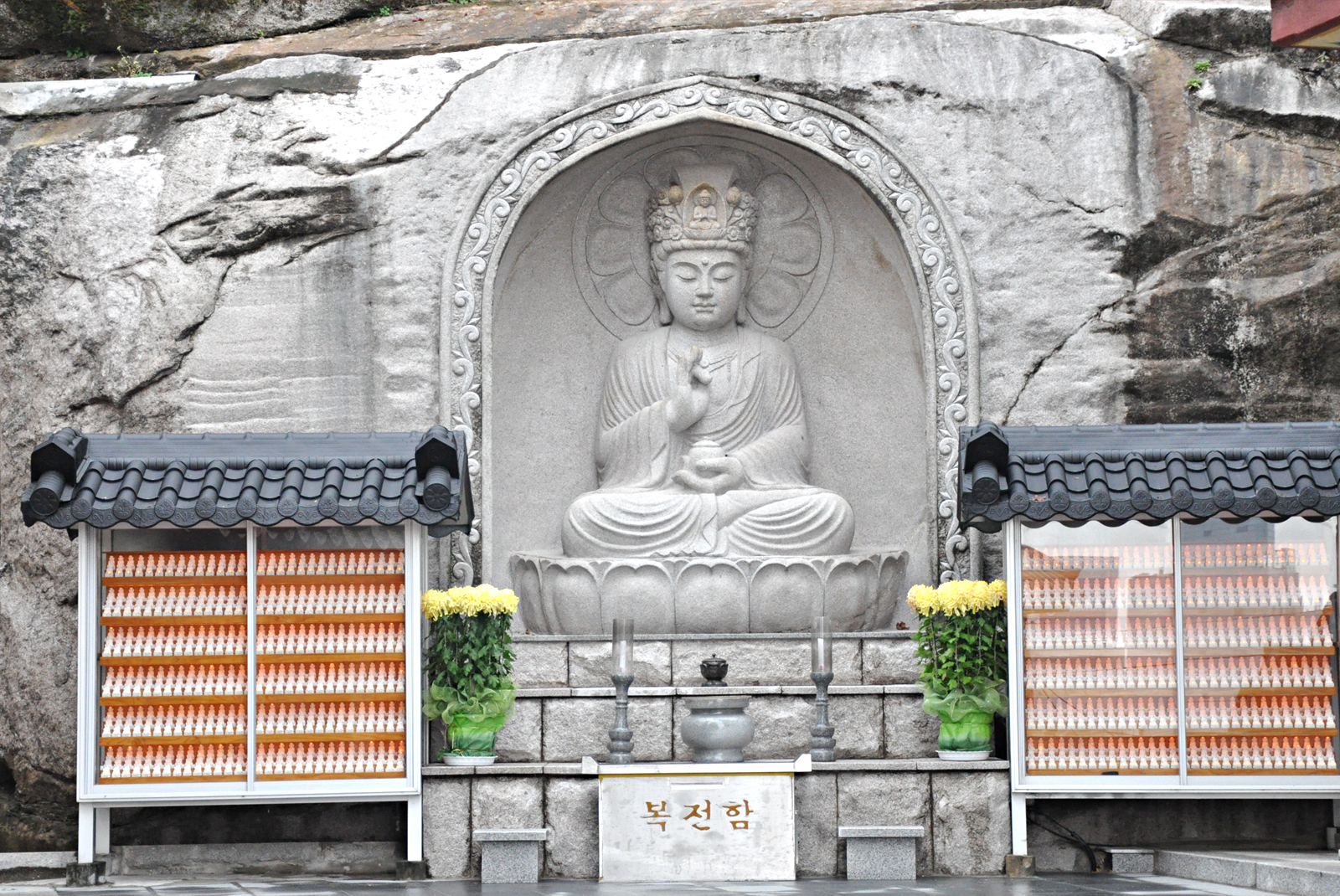 Myogak Temple3